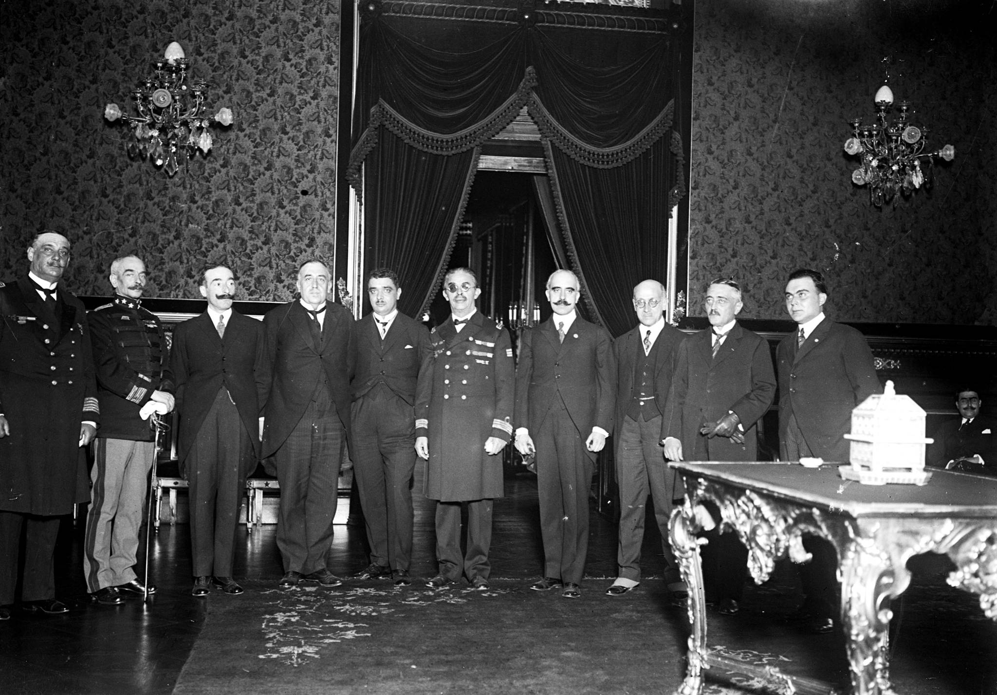 The Portuguese cabinet, headed by Prime-Minister António Ginestal Machado, on the day of its takeover, 1923-11-15.